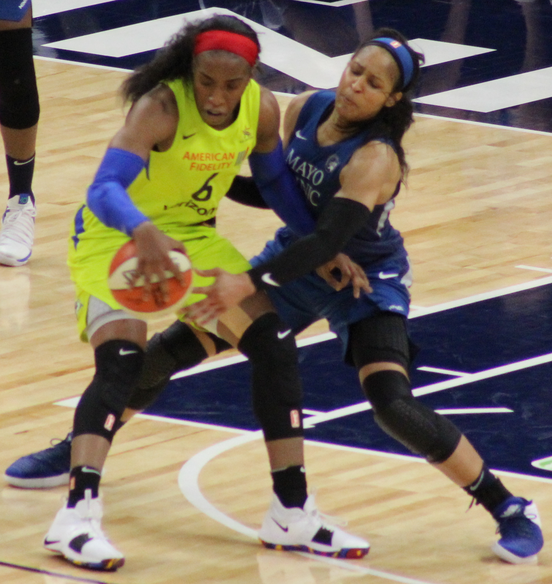 Kayla Thornton of the Dallas Wings and Maya Moore of the Minnesota Lynx in 2018